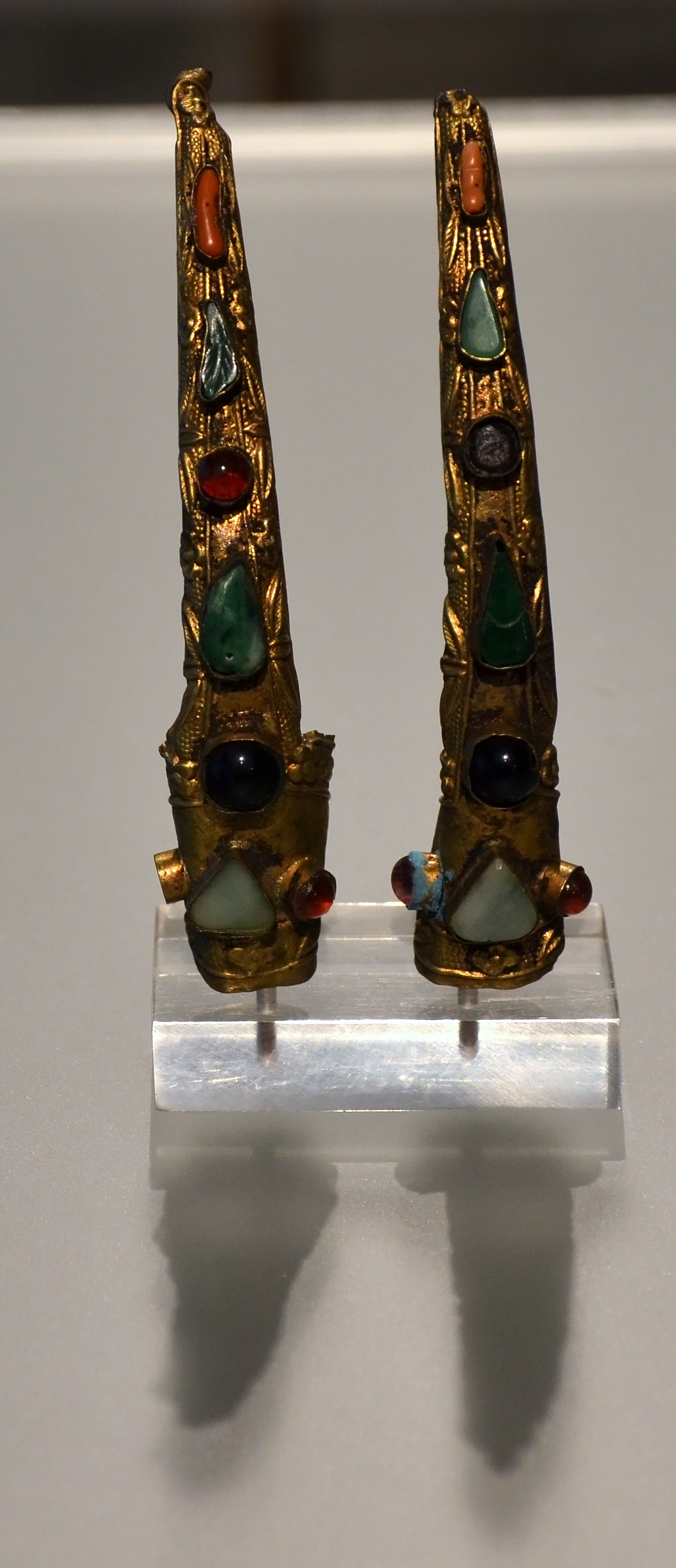 Pair of finger nail protectors, front view ; brass sheet hammered, inlaid semi precious stones. China, Qing Dynasty , 1900-1910. Museum für Ostasiatische Kunst in Cologne ( gift by Helga Fisher ).